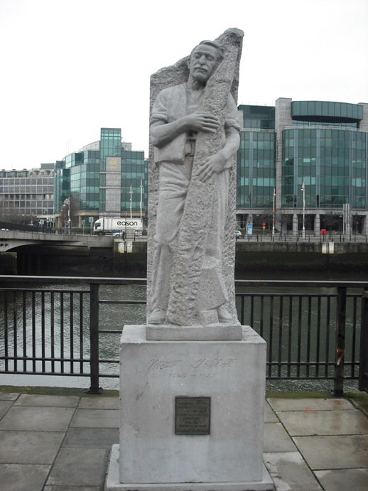 Statue of the Venerable Matt Talbot in Dublin near Matt Talbot Bridge